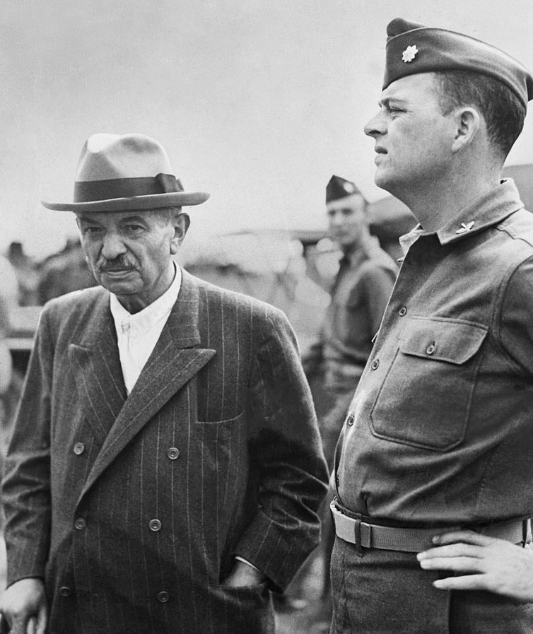 Austria, Horsching Airport, Pierre Laval And US Major Henry Wood before Laval taking off for France